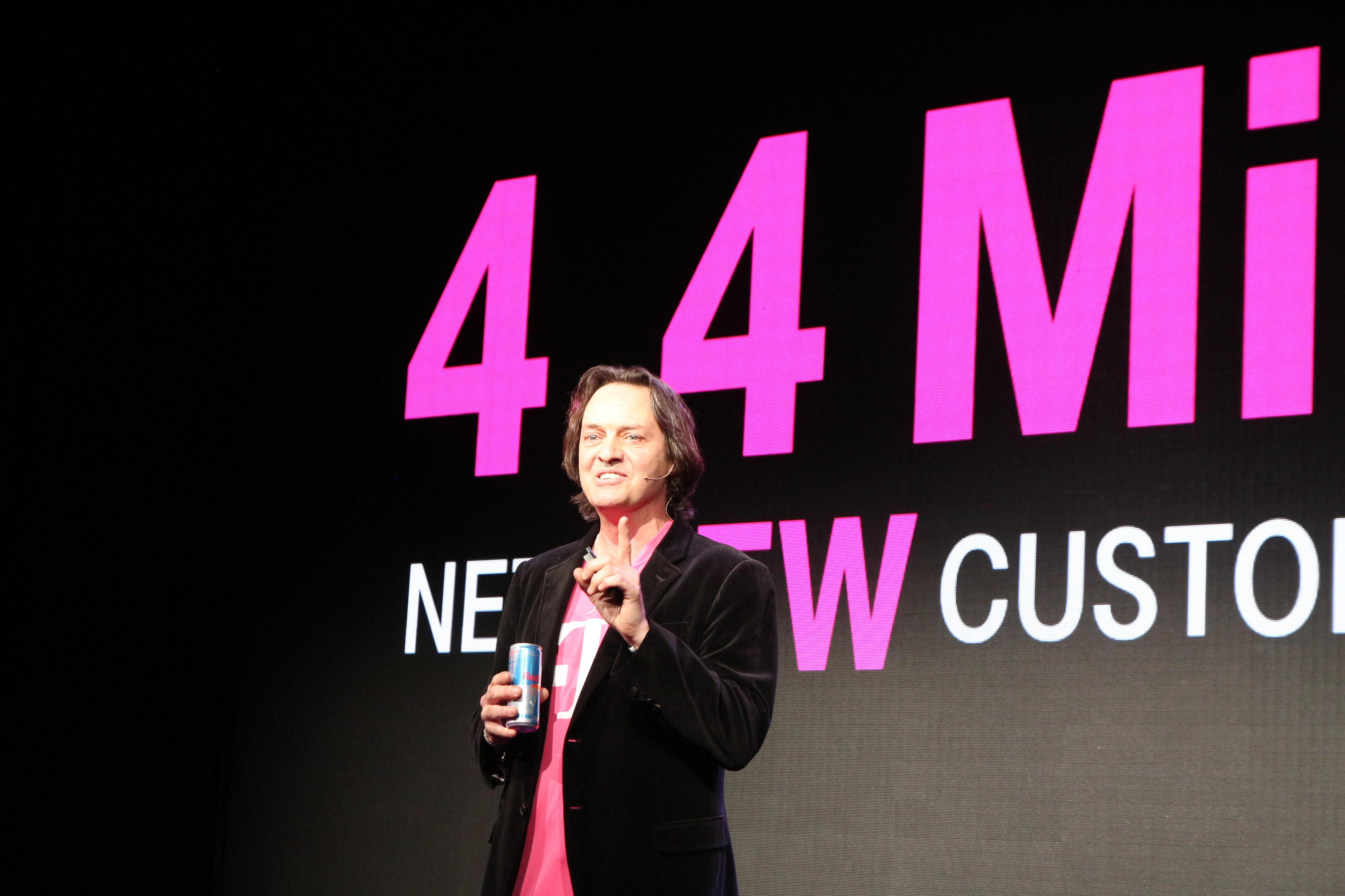 T-Mobile's John Legere at the T-Mobile Press Conference, CES 2014, Las Vegas